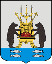 Veliky Novgorod, coat of arms